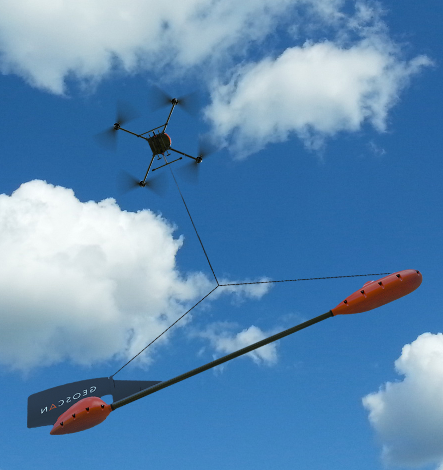 Geoscan_magnito